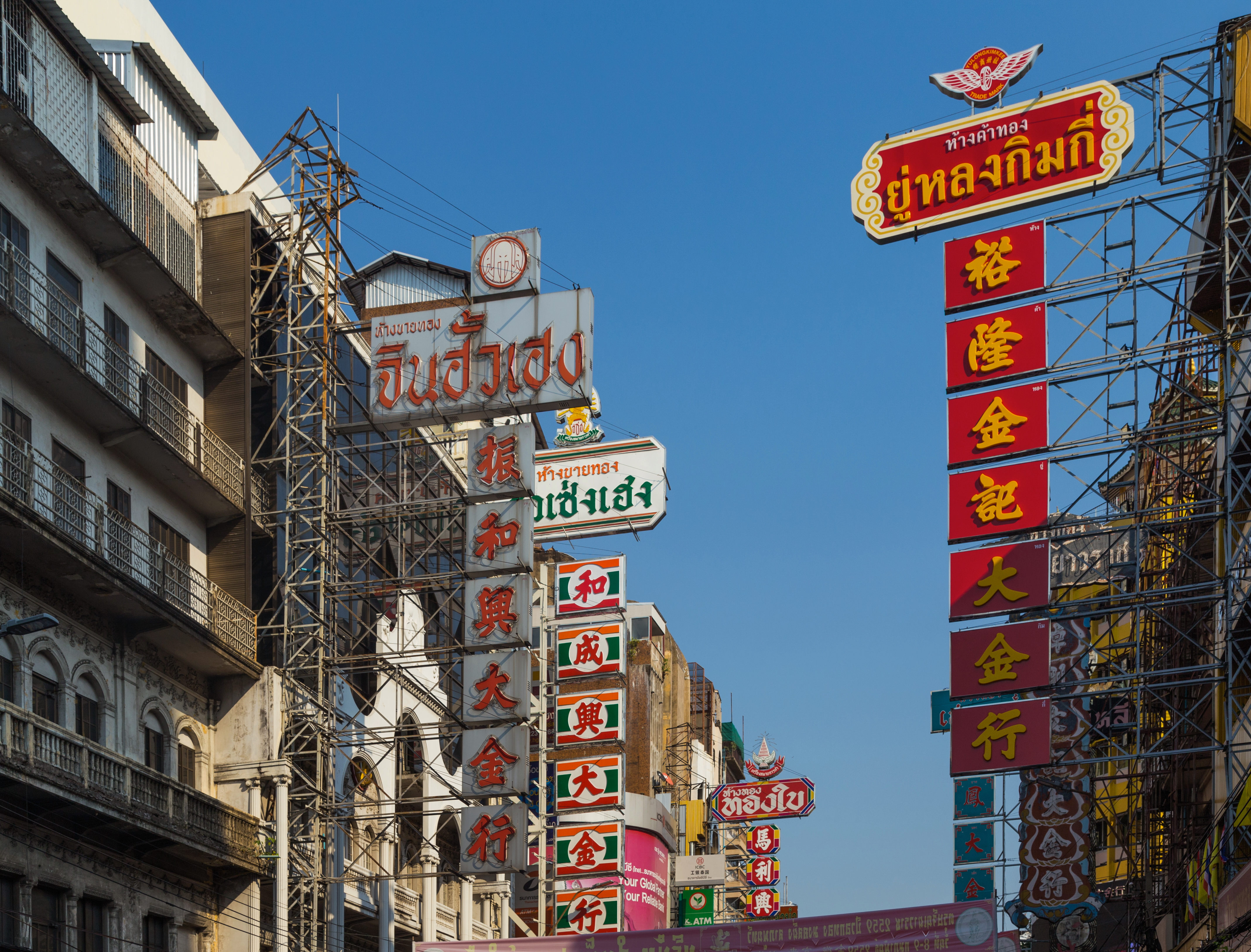 Advertising sign boards. Yaowarat Road. Samphanthawong District, Bangkok, Thailand.